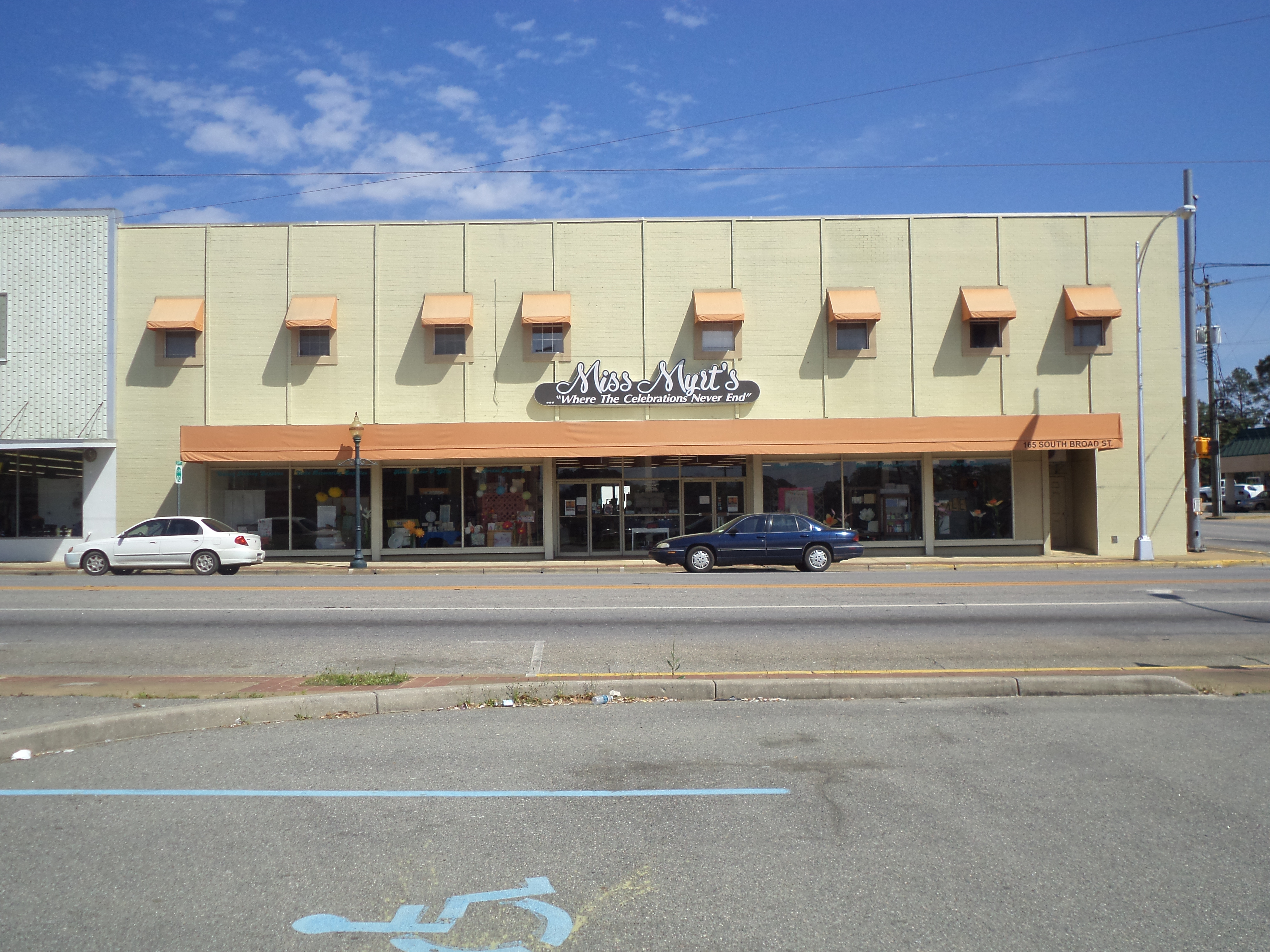 Miss Myrt's, former Belk, 165 S Broad St, Cairo, Grady County, Georgia